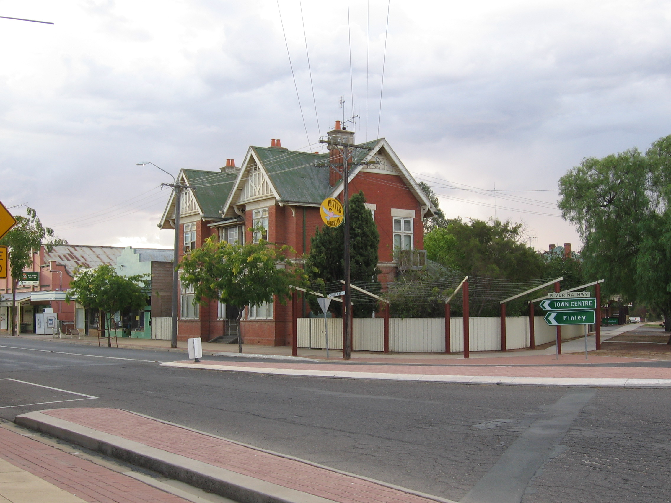 The Riverina Highway intersection in Berrigan, New South Wales